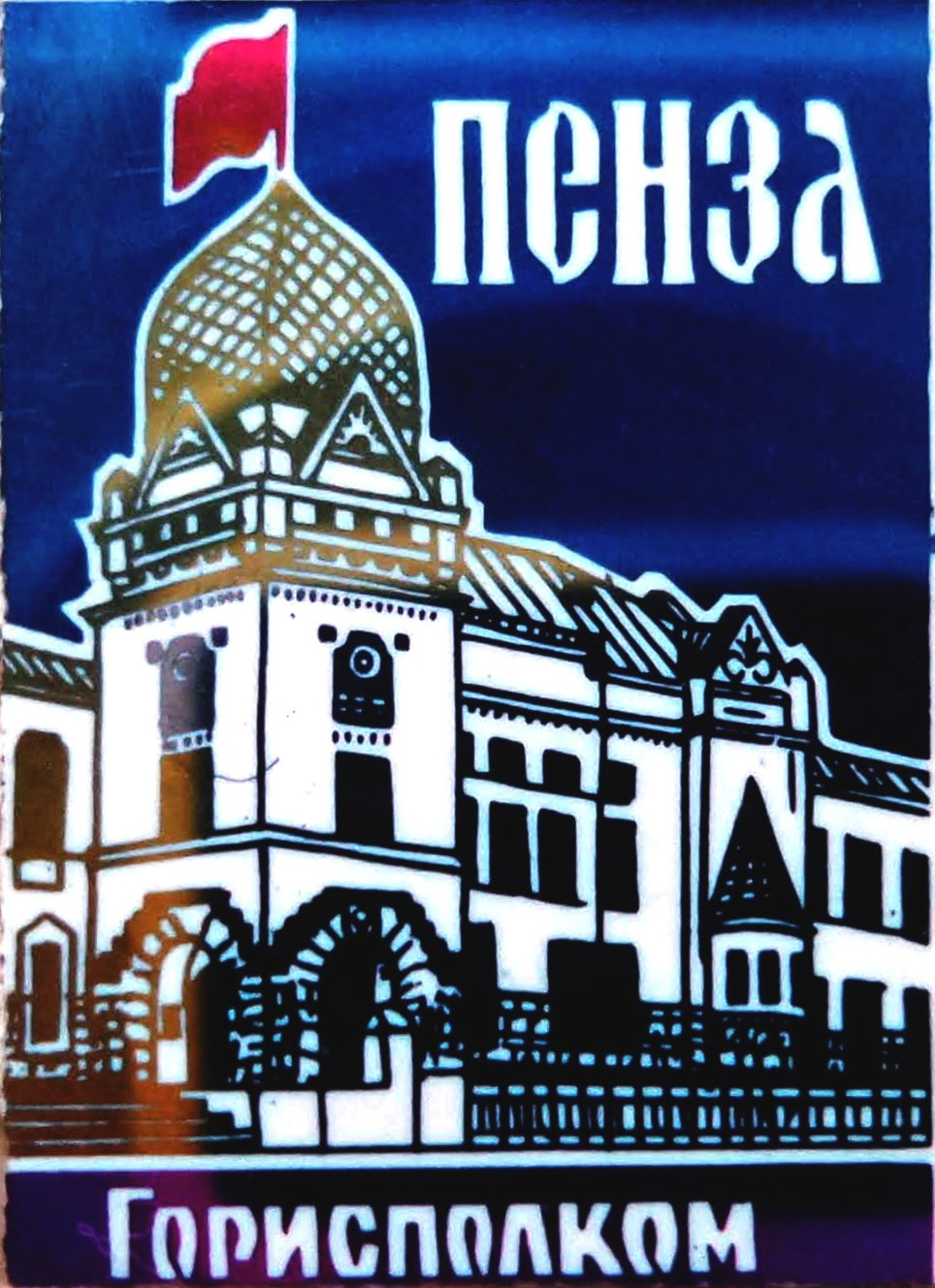 Penza. City Executive Committee. Badge of USSR.